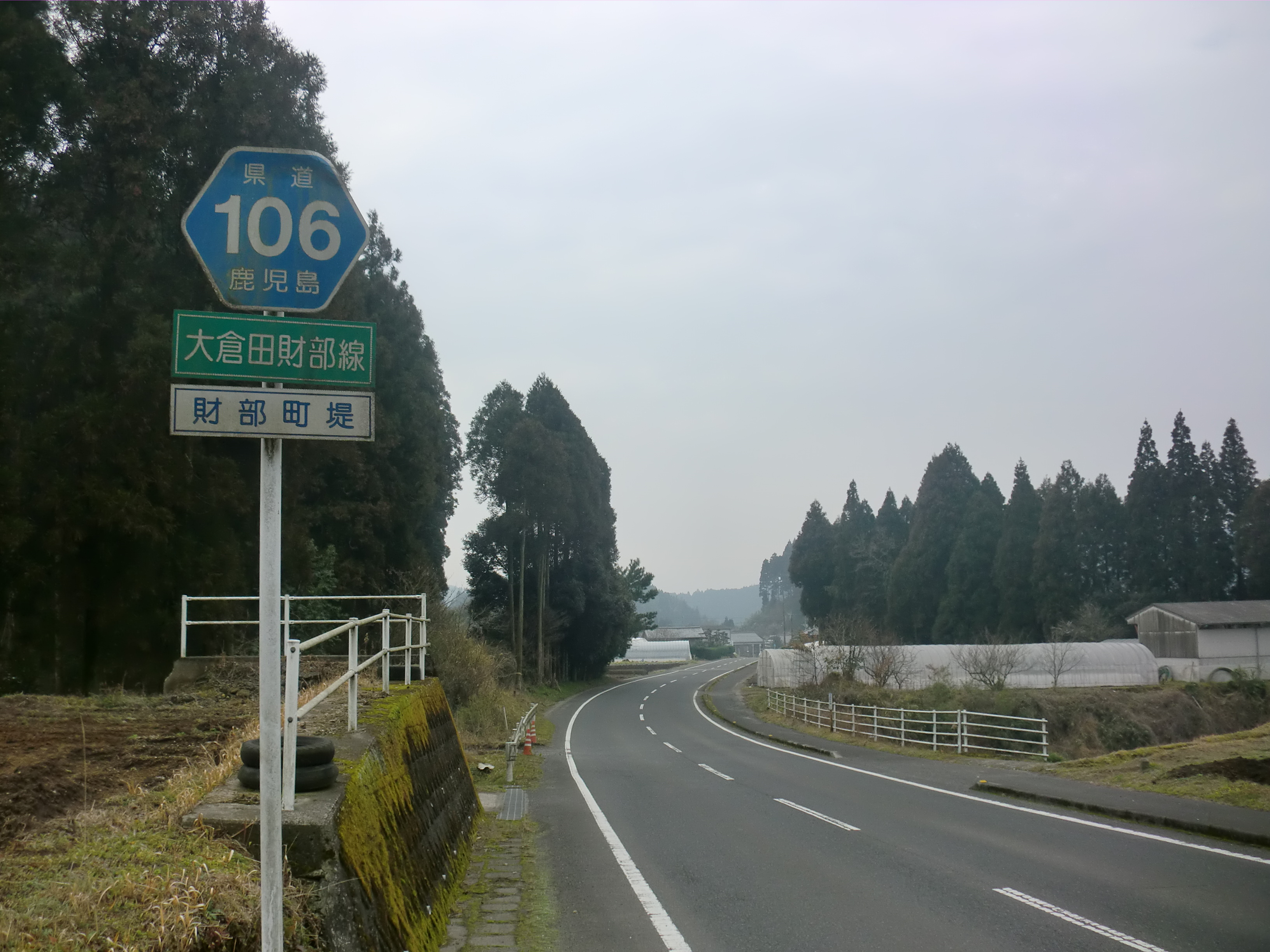 The Miyazaki Prefectural Road and Kagoshima Prefectural Road Route 106 in Soo City